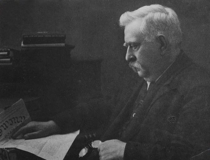 Alfons Parczewski.